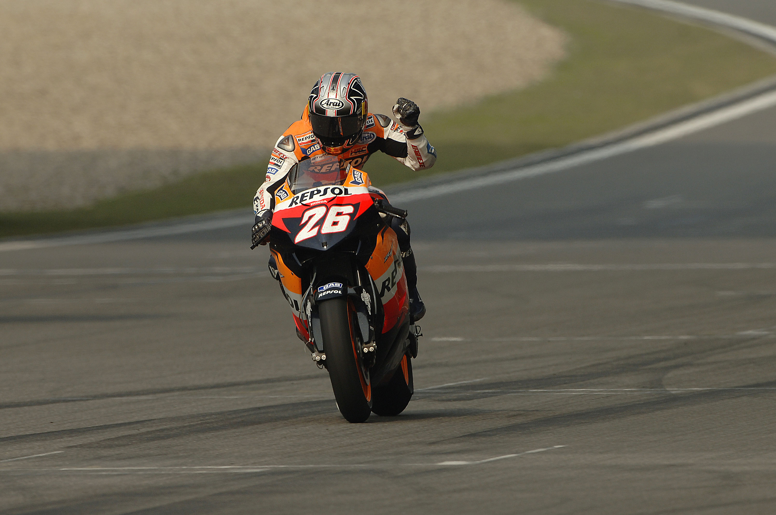 Dani Pedrosa, riding his Repsol Honda, celebrating his first victory in the MotoGP class at the 2006 Chinese Grand Prix.